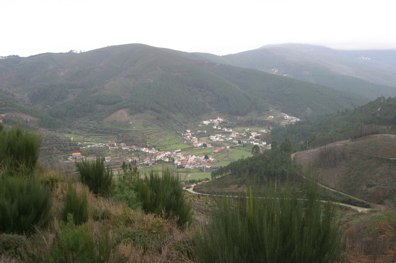 Pomares - View